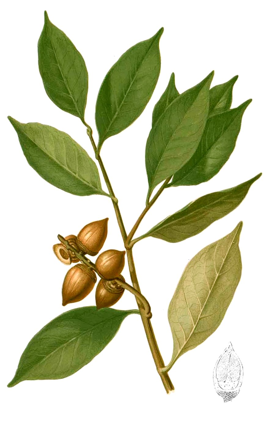 Plate from book